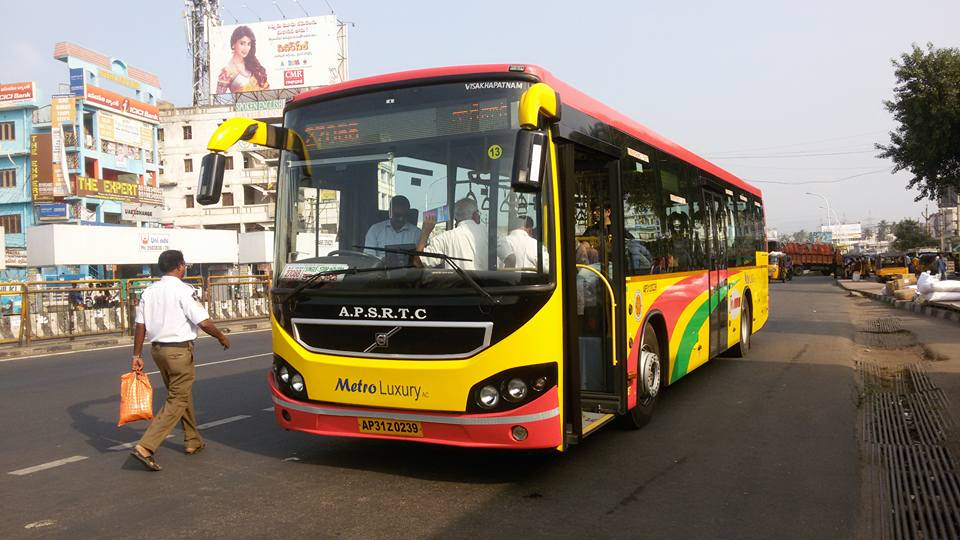 Visakhapatnam Metroluxury Doing Vizag - Kakinada via Vizag Airport